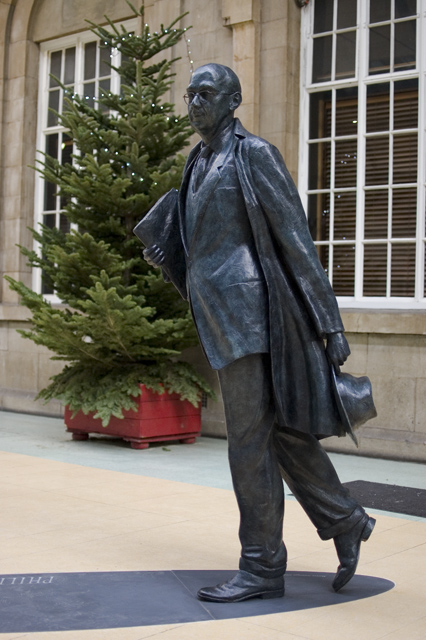 Philip Larkin statue, Hull, East Riding of Yorkshire, England.The statue, by sculptor Martin Jennings, was unveiled on the Hull Paragon Station concourse on 2 December 2010, 25 years to the day after the poet Philip Larkin died. The unveiling marked the end of Hull's Larkin 25 commemoration of Larkin's life. The most popular and conspicuous element of the celebrations were the Larkin toad sculptures TQ3082 : Statue of Sir John Betjeman, Larkin's friend and fellow poet, at the other end of the line from Hull at St Pancras.